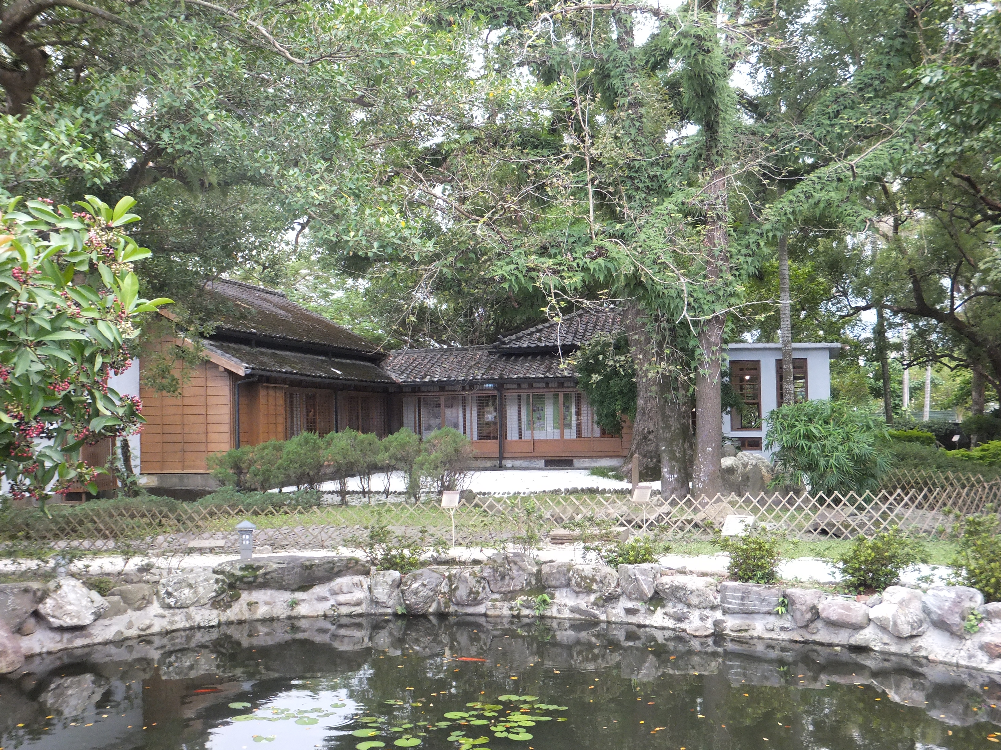 Memorial Hall of Founding of Yilan Administration, Yilan City, Yilan County, Taiwan中文（台灣）: 宜蘭設治紀念館外景